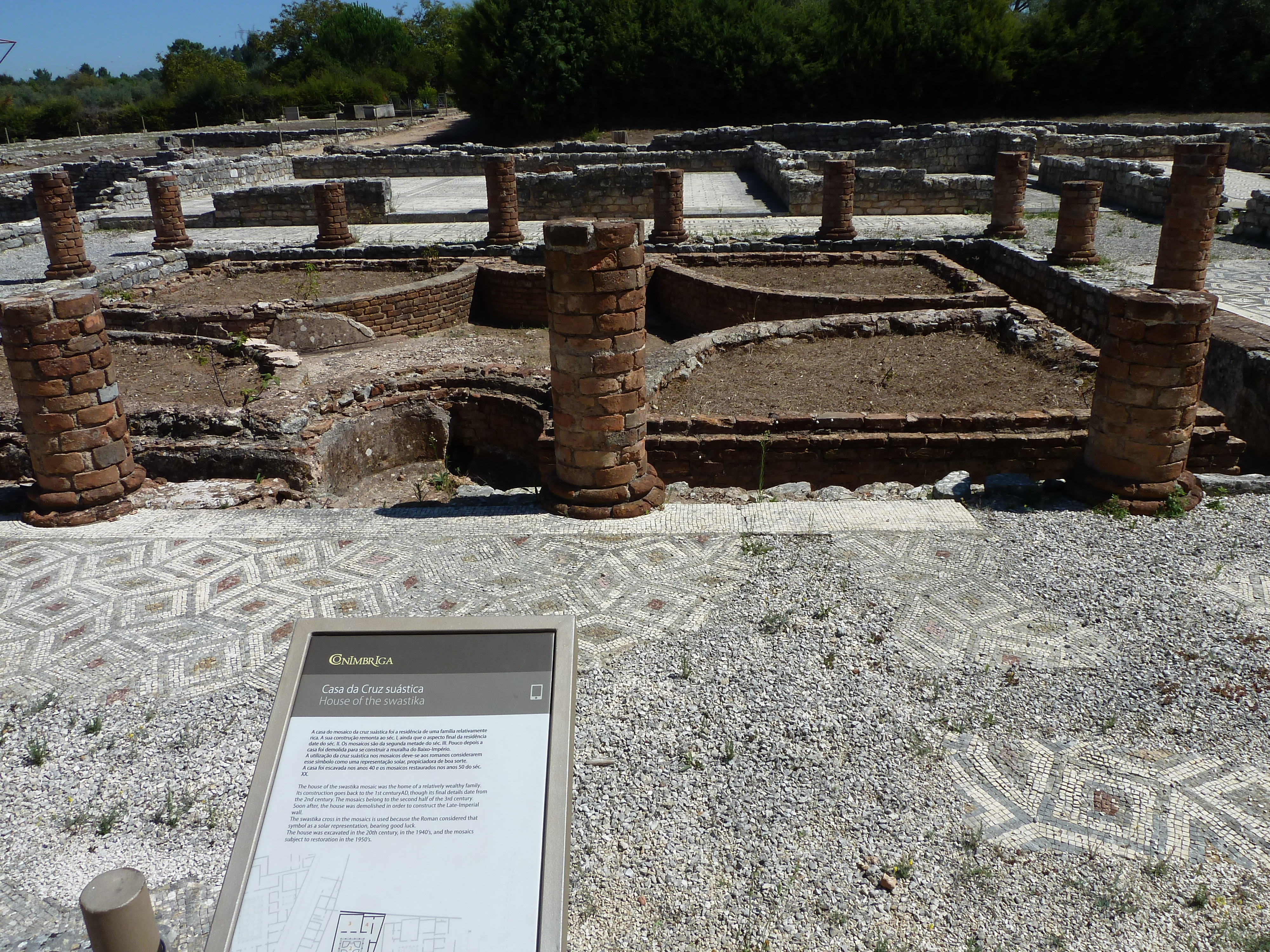 This file was uploaded for Wiki Loves Monuments in Portugal with the unique identifier 70107.